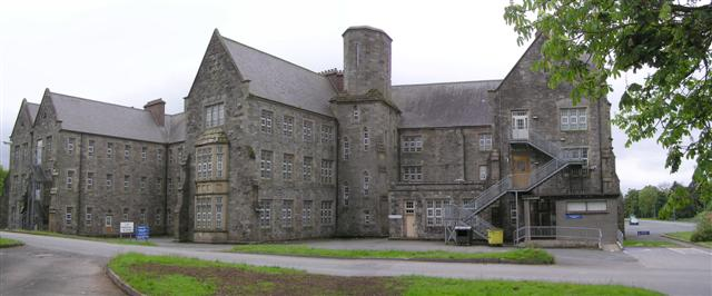 Tyrone and Fermanagh Hospital, Omagh. A side view of the large building.